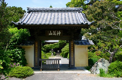 Shogenji, Shizuoka /Main Gate